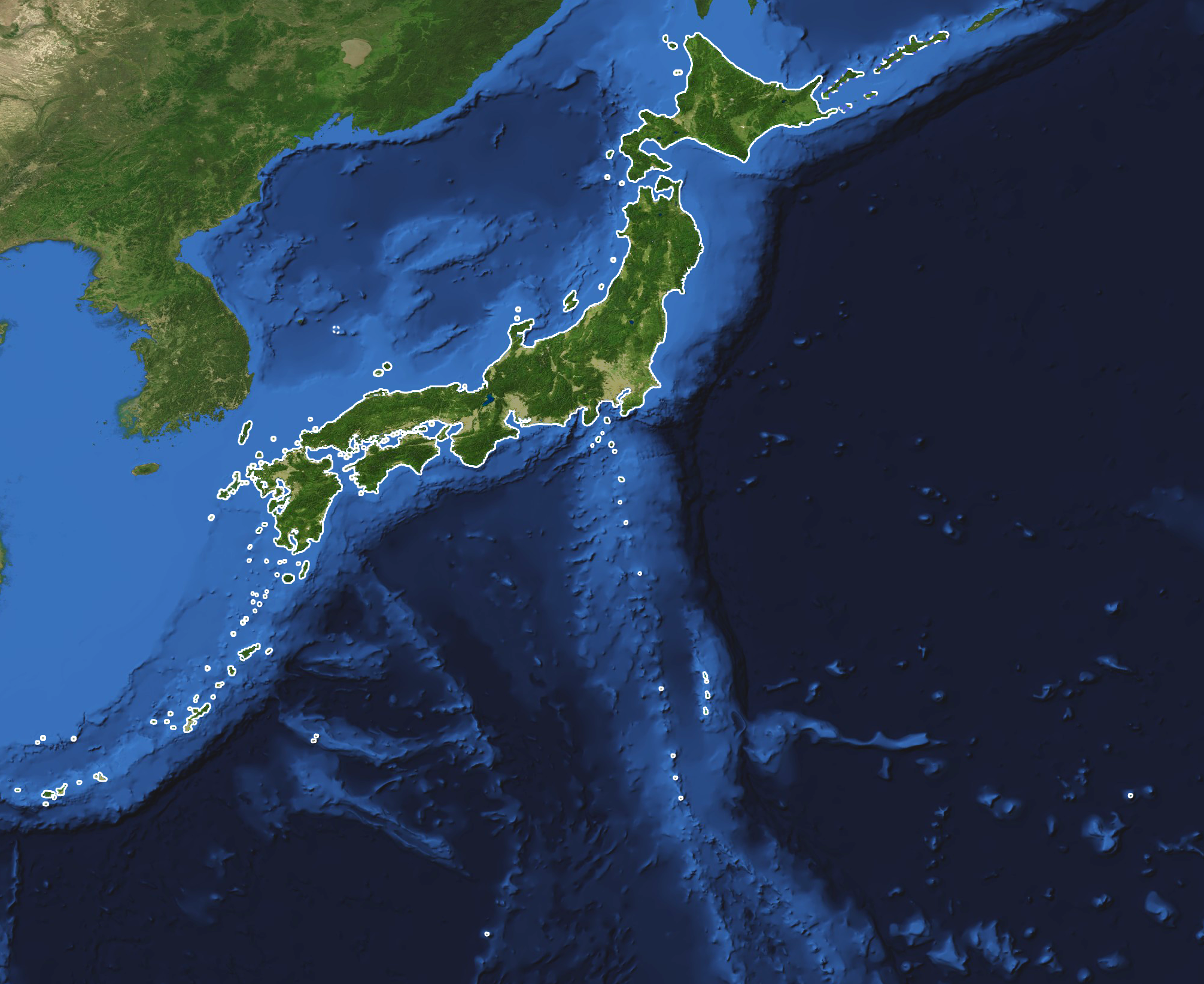 This is a topography and bathymetry map of the Japanese archipelago with outlined islands. It shows the land and the seabed of Japan. All significant Japanese owned and controlled islands are outlined with a solid line such as Minami-Tori-Shima, Okinotorishima, Yonaguni and the Senkaku islands. The northern territories (kuril islands) and Takeshima have a dashed line.